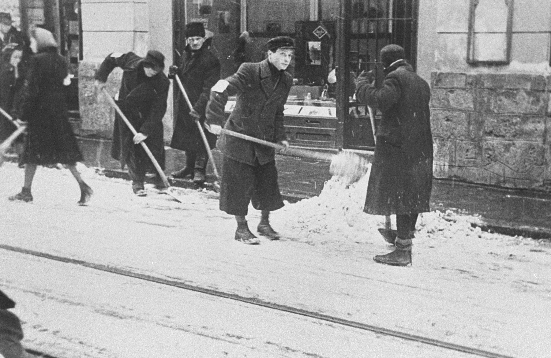 see title